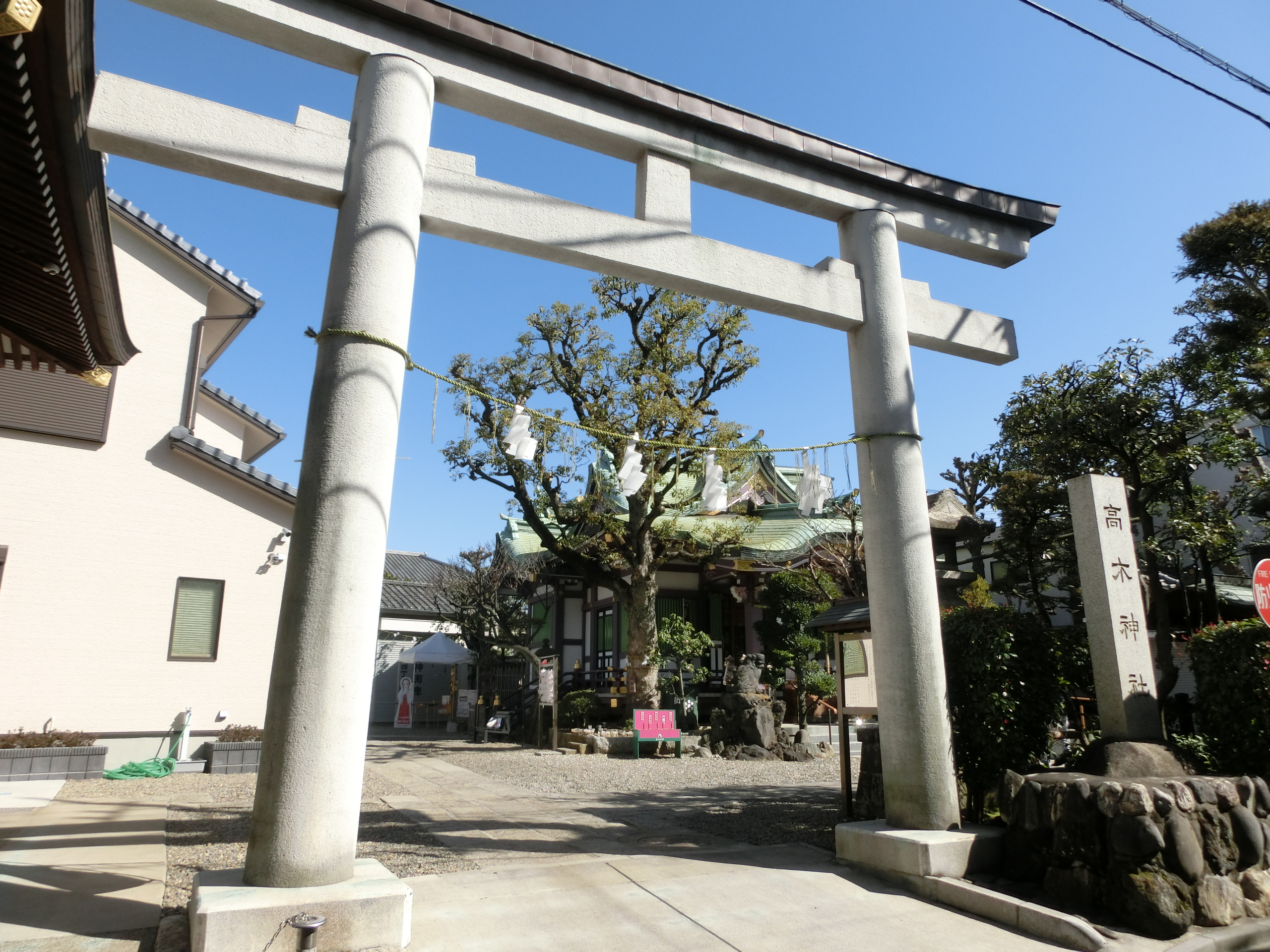 Takagi Jinja (Sumida)